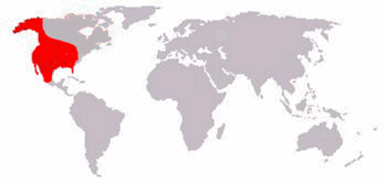 Short Faced Bear Range